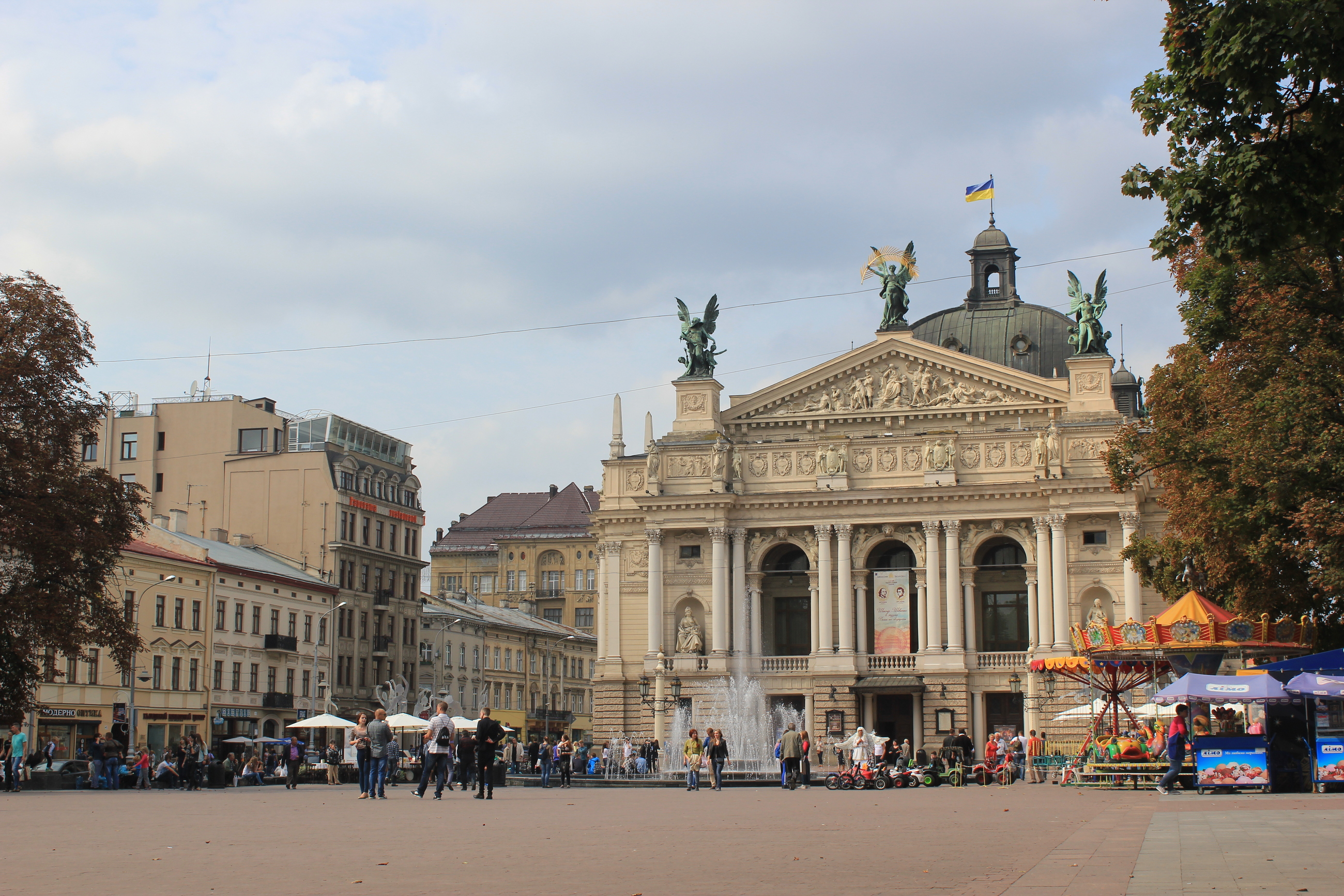 Lviv, opera house at Freedom prospect.